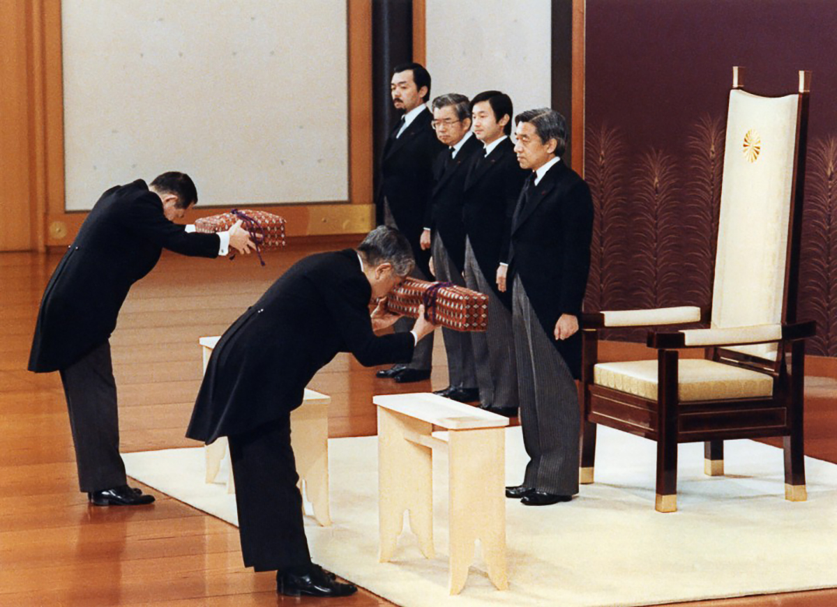 The picture of Inheritance Ceremony of Kenji and others. I edited the PDF-file from